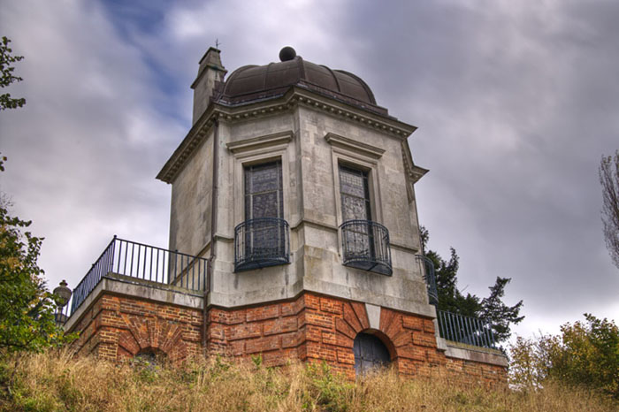 Author: Antony McCallum Giacomo Leoni's 1735 "Temple"